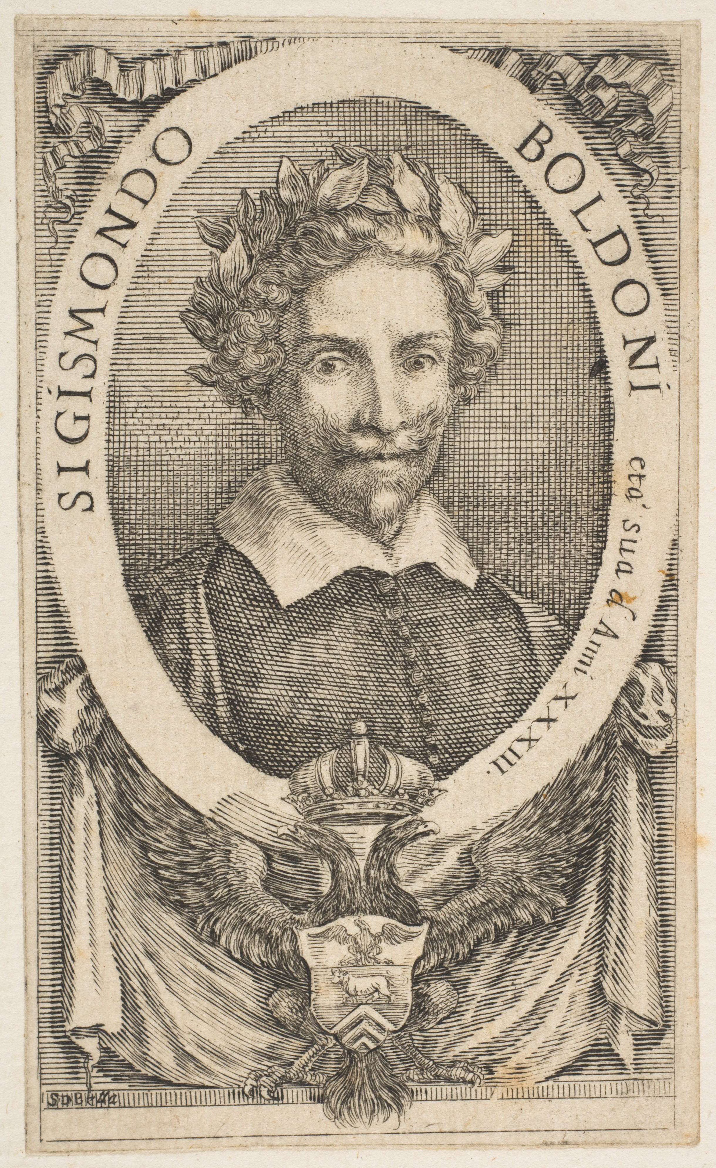 Engraved portrait of the Italian poet Sigismondo Boldoni (1597–1630)